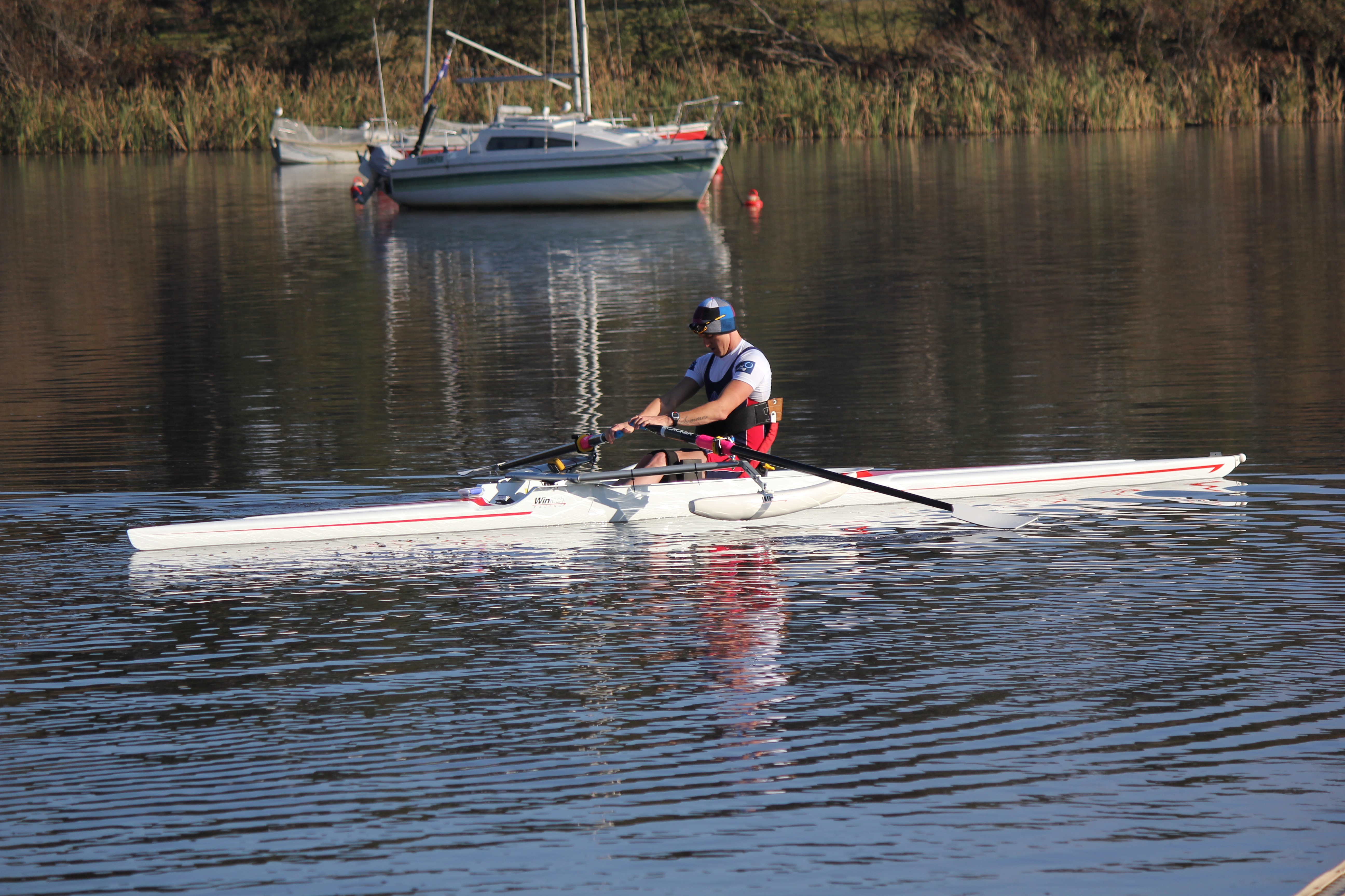 Paralympic rowing visit for Wikinews story.